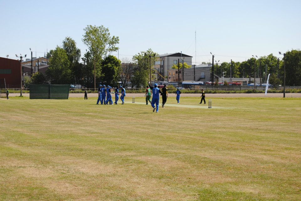 ICC Event 2012 Tallinn, Hippodroom